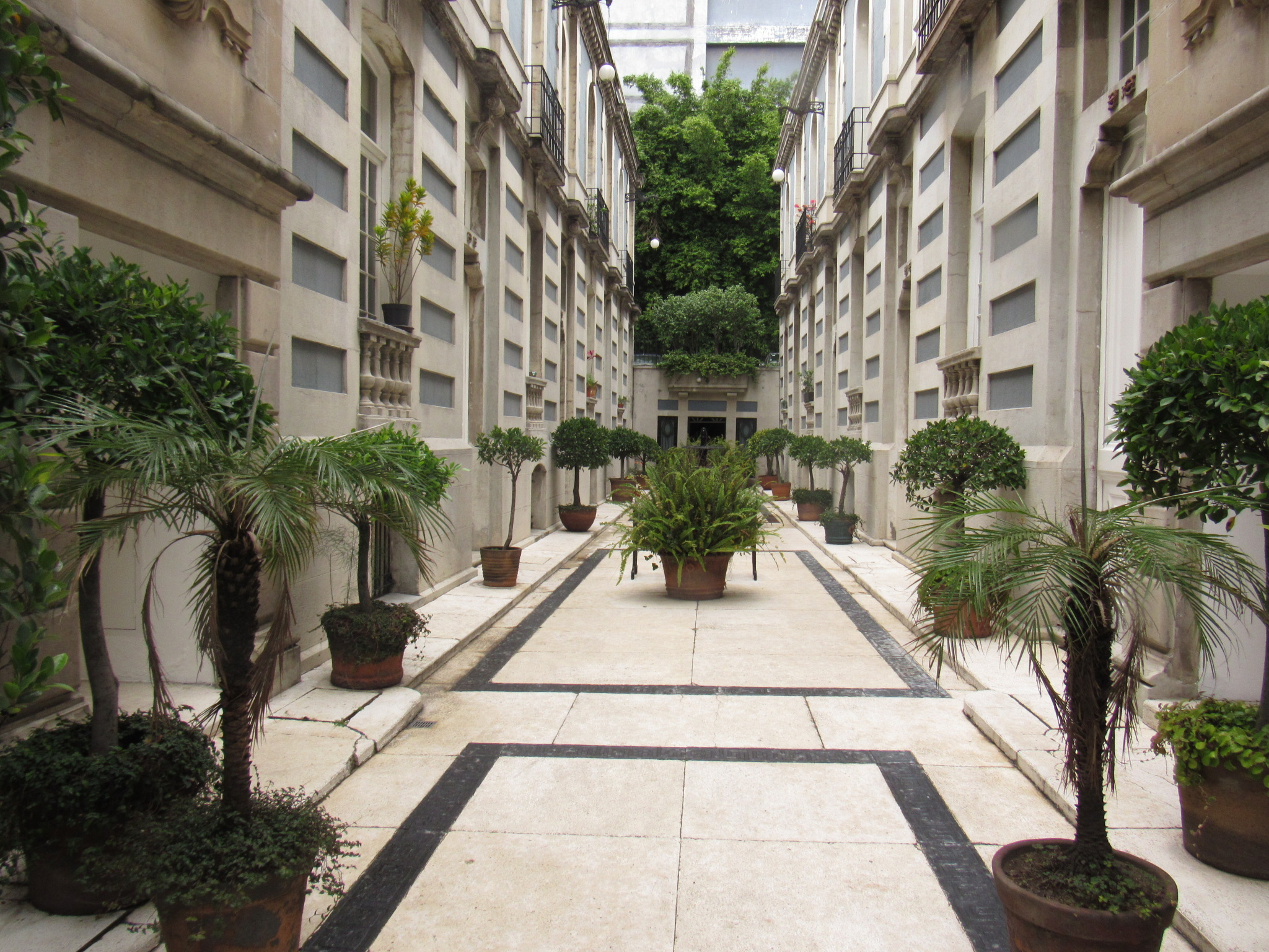 The courtyard that separates the Balmori building in the Colonia Roma Mexico City.